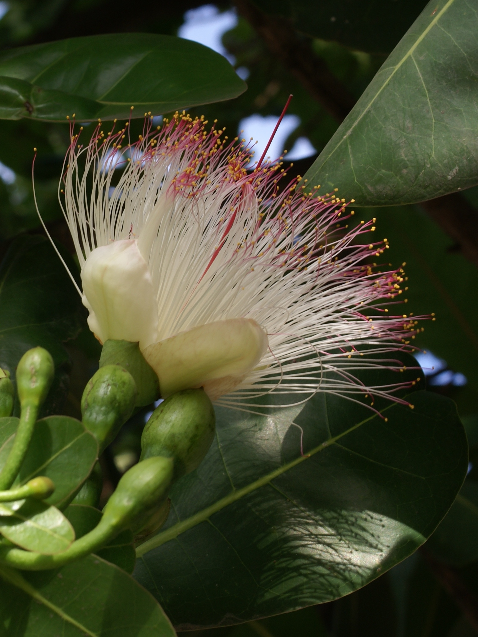 Barringtonia asiatica flower (Réunion island